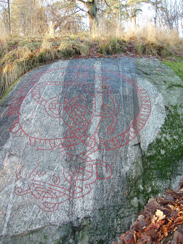 ”Åsmund carved runes in memory of his grandfather Sten, father of Sibbe and Gerbjörn and ..(not visible)..Ulfs. Here a great monument over a good man.” The figures shows large snakes and on top a Maltese cross typical for the late Viking age. Registration No. Sweden, Riksantikvarieämbetet, Lidingö No. 23:2 (also decribed as Lidingö No. 23:1). Svensk originaltext inklusive alla åtskiljningstecken (Swedish original text with runic letters): asmu-tr ... ris-- * runaR * eftiR × stein * faþurs*faþur * sin * auk * faþur * siba * ok × geiRbiarnaR × aok ... ulfs * eaR * merki * mikit * at * man * koþan × Läsbar text på fornnordiska (Readable old Nordic text, Swedish): Asmu[n]dr ris[ti] runaR æftiR Stæin, faðursfaður sinn, ok faður Sibba ok GæiRbiarnaR ok Ulfs. HiaR mærki mykit at mann goðan.